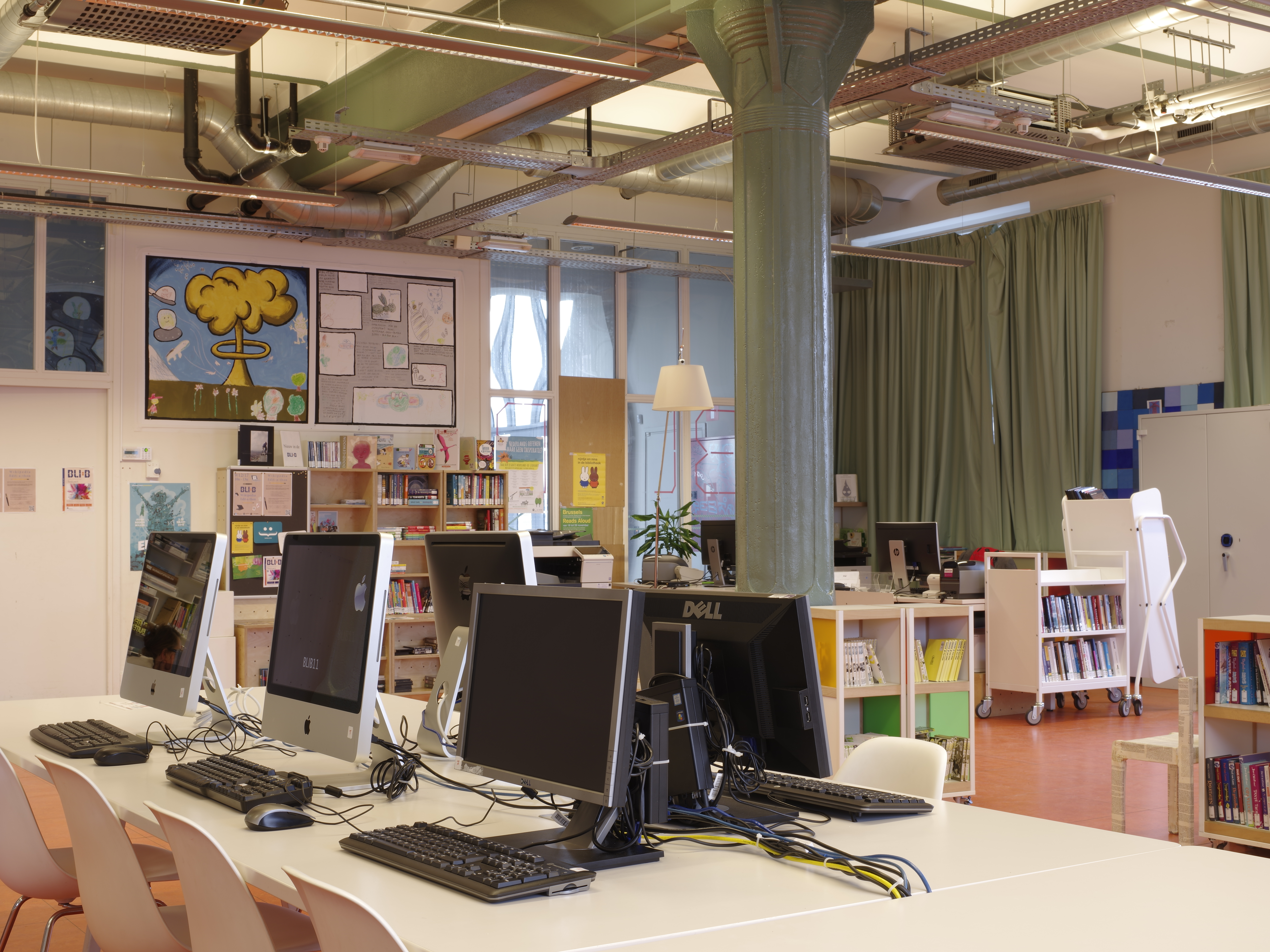 BLI:B, public library Vorst - Forest, at avenue Van Volxem 364 in 1190 Brussels (Forest).